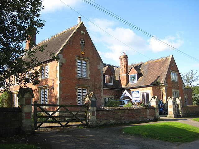 Former parish school at Deerhurst, Gloucestershire, seen from the east. Built in 1856 as a National School. Now converted into private homes called the Old School House (left) and Old School (right).